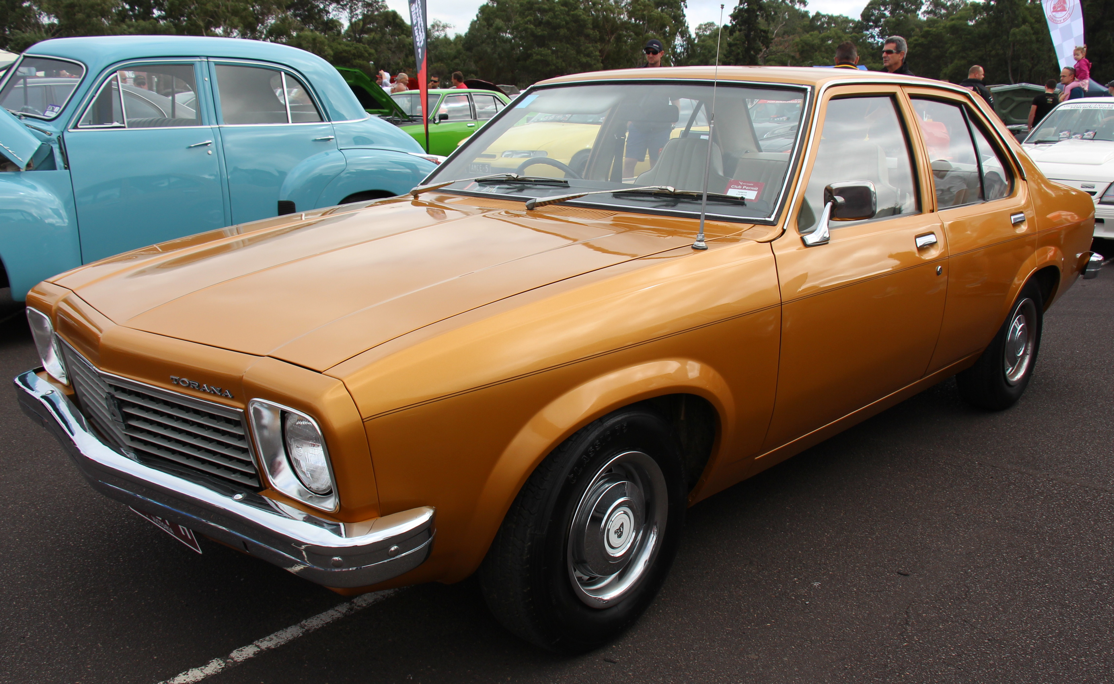 Dynasty Gold. Built from Feb 1976-March 1978 A minor facelift from the LH Torana, the most obvious change was the rectangular headlights were changed to round (the only LH to have round was the L34). The big news was the introduction of the 2 door Hatchback. Engines; 1900 4 cyl, 173 and 202 6 cyl or 253 and 308 V8s Sedan; Sunbird (4 Cyl), S, SL, SLR or A9X Hatchback; Sunbird, SL, SS or A9X